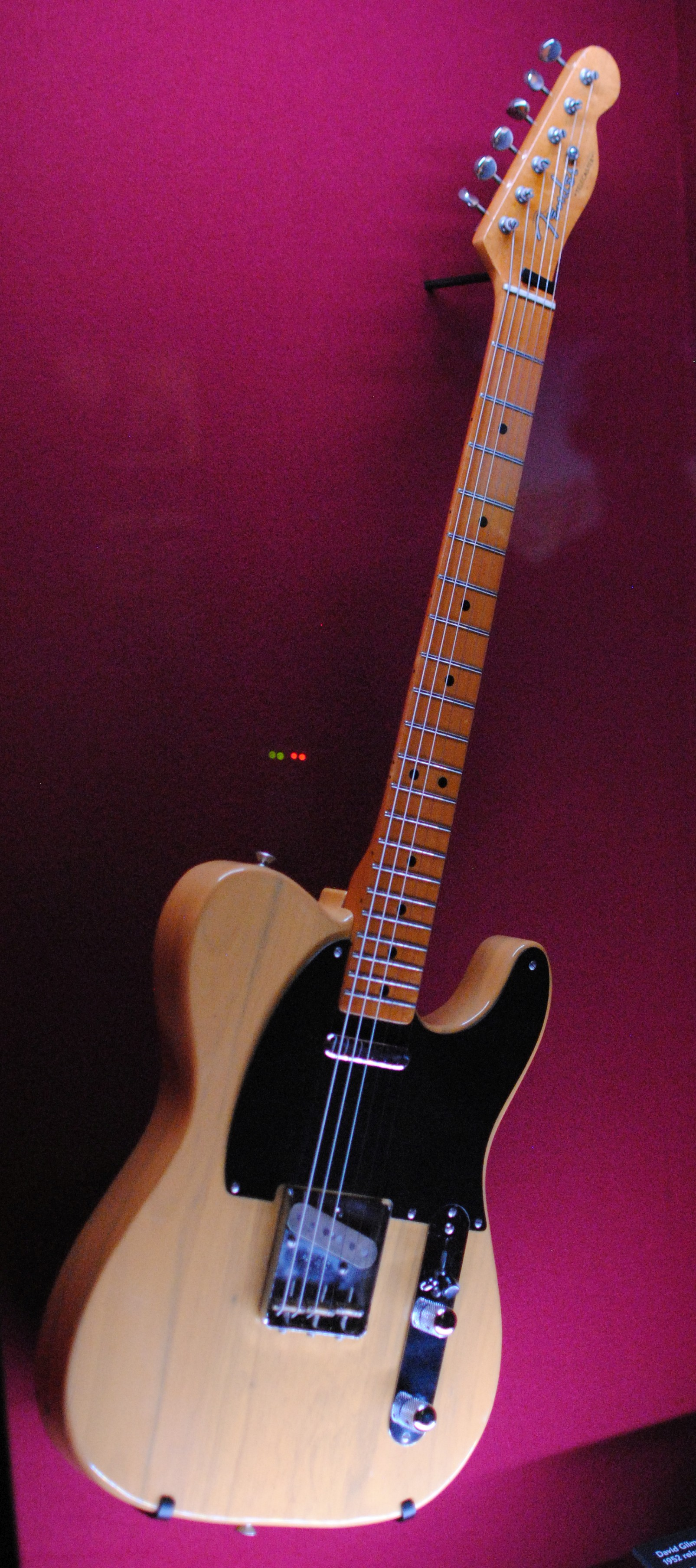 David Gilmour's 'Fender Telecaster 52V', a 1982 reissue of the 1952 original; displayed at the Pink Floyd: Their Mortal Remains exhibition at the Victoria and Albert Museum. Gilmour used this "extensively" on Pink Floyd's 1987-1989 and 1994 tours, as well as at the 2007 tribute concert at the Barbican, and the 'Later... with Jools Holland' tribute to Richard Wright.